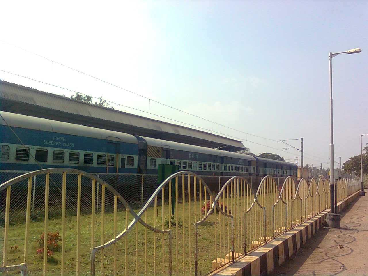 A view Gowthami Express at Kakinada Railway Station from the Bhanugudi Side entrance